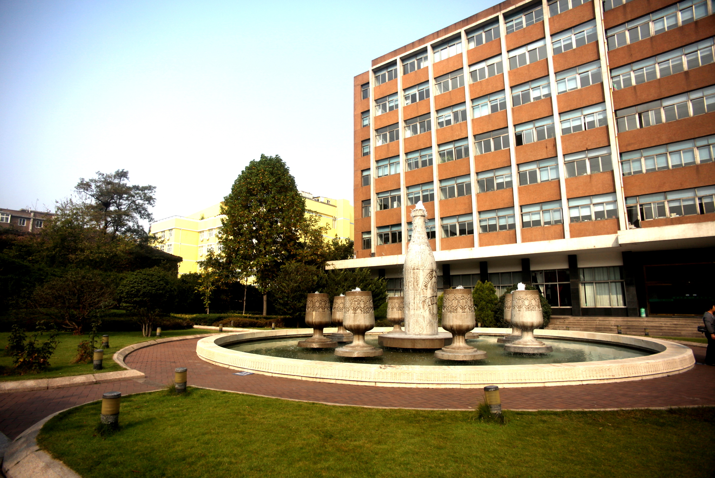 Qingdao Brewery